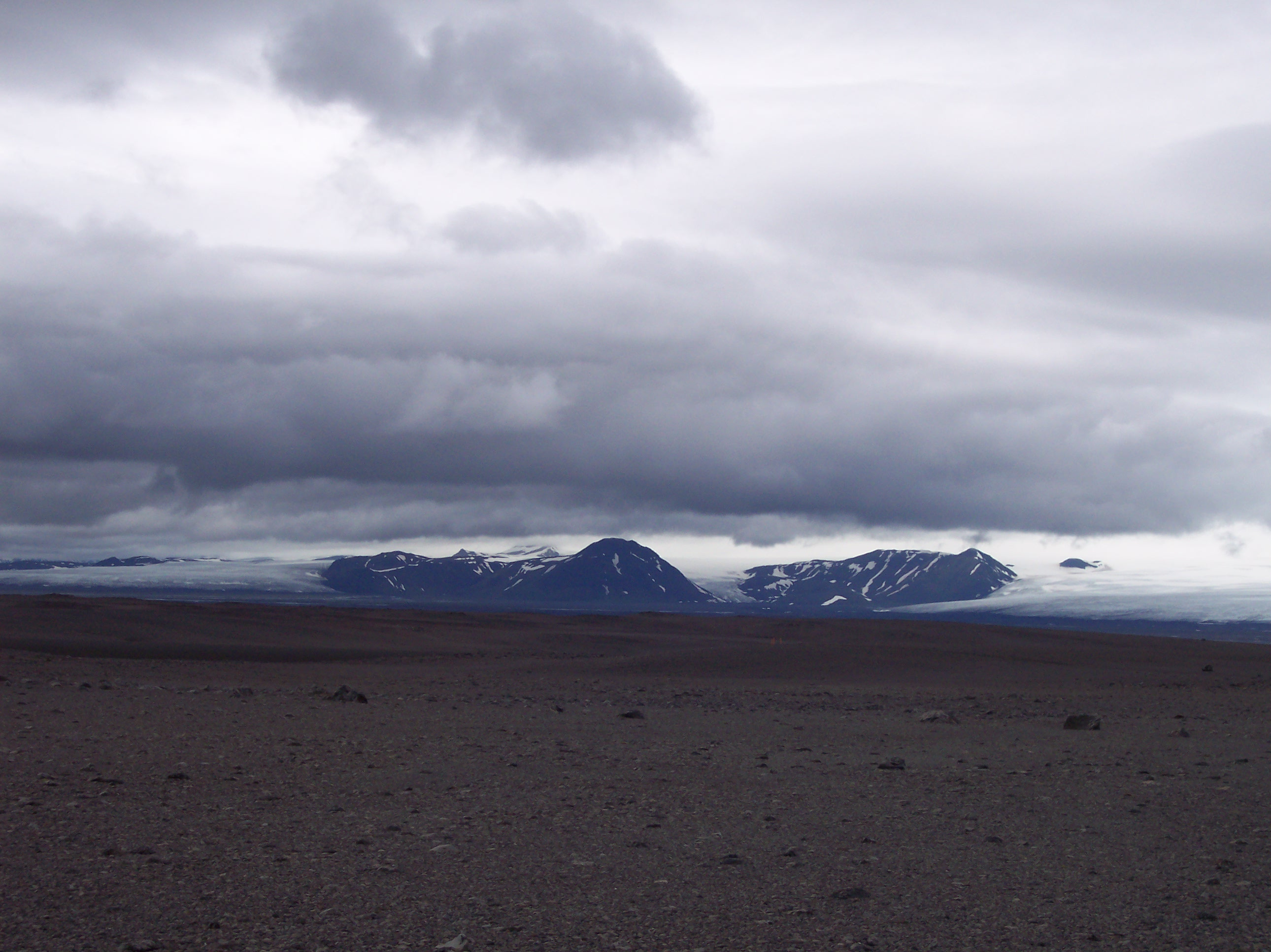 Taken by myself in July 2005 from the Highlandroad Sprengisandur in Iceland. The picture shows Arnarfell hið mikla (Great Eagle Mountain) in the middle, Múlajökull glacier to the left and Þjórsárjökull glacier to the right.